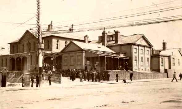 This photograph shows the old Supreme Court building on the north-west corner of Latrobe and Russell Streets, Melbourne. Constructed in 1842, it was used to house: until 1852, the Supreme Court of New South Wales for the District of Port Phillip; from 1852 until 1884, the Supreme Court of Victoria; and from 1884 until 1910, the Court of Petty Sessions. It was demolished in 1910 to make way for the old Magistrates' Court building that presently occupies the site. The photograph was taken by an unknown photographer, circa 1900. It is an albumen print.